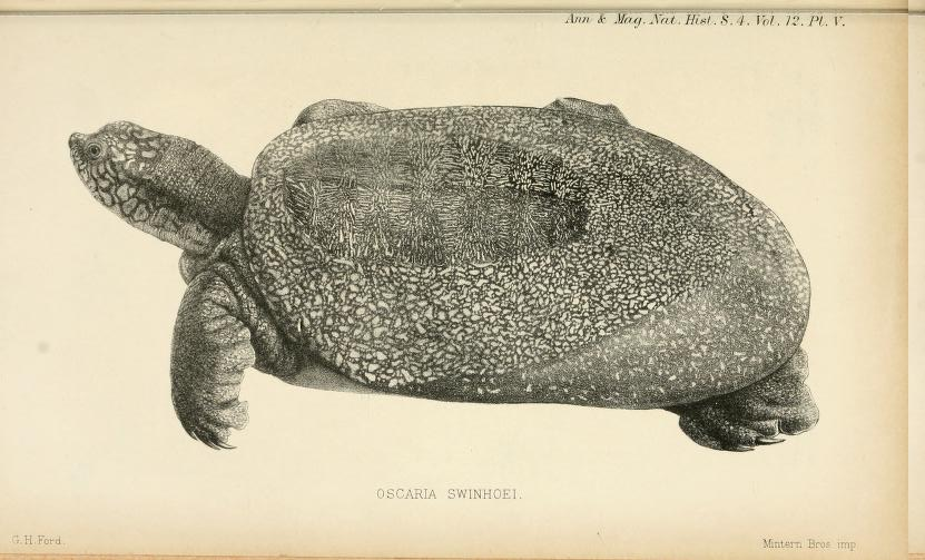 The Yangtze Giant Turtle, Oscaria swinhoei; now known as Rafetus swinhoei. This is the specimen received by Gray from Robert Swinhoe